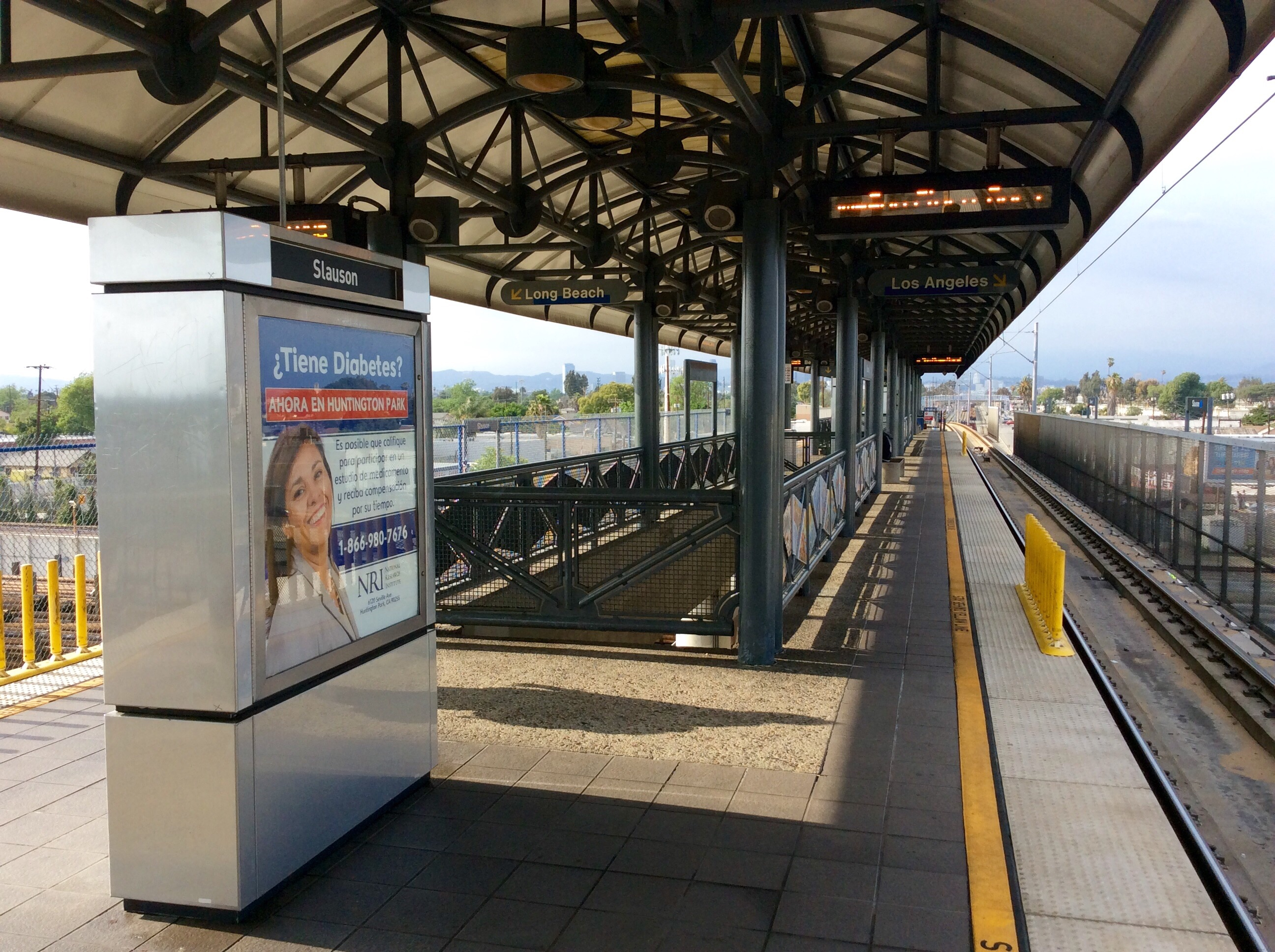 The platform view of Slauson Station.